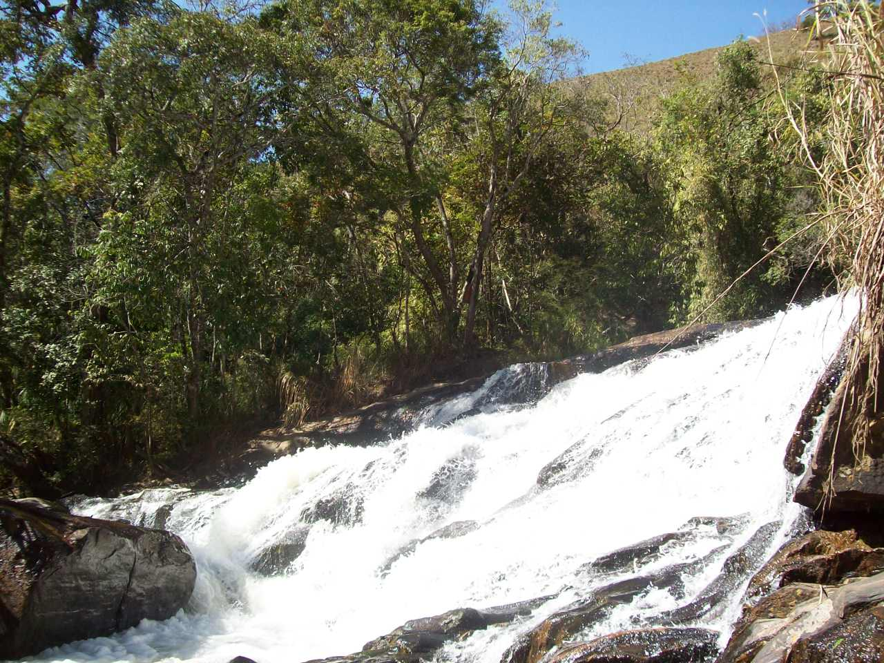 This picture was taken @ Ninho da Águia´s Fall